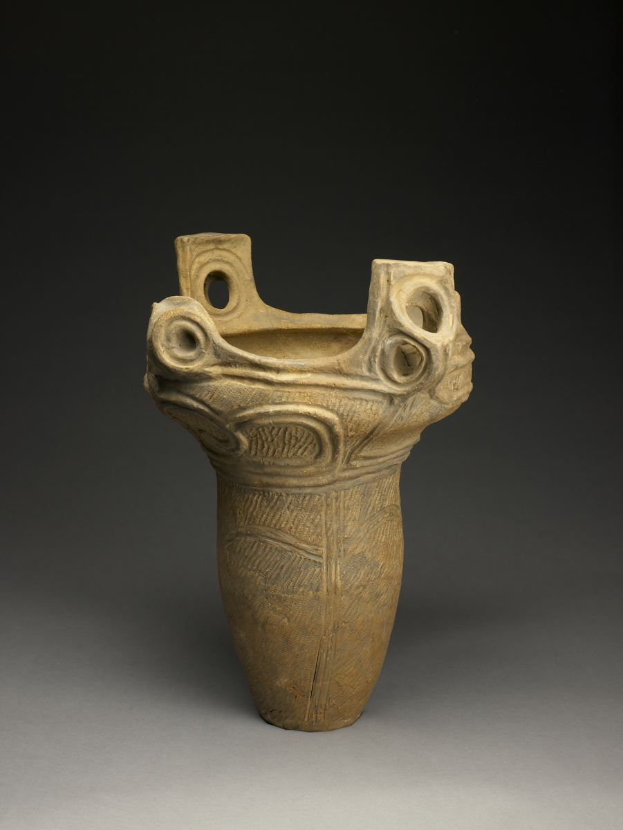 Jar from Jōmon period